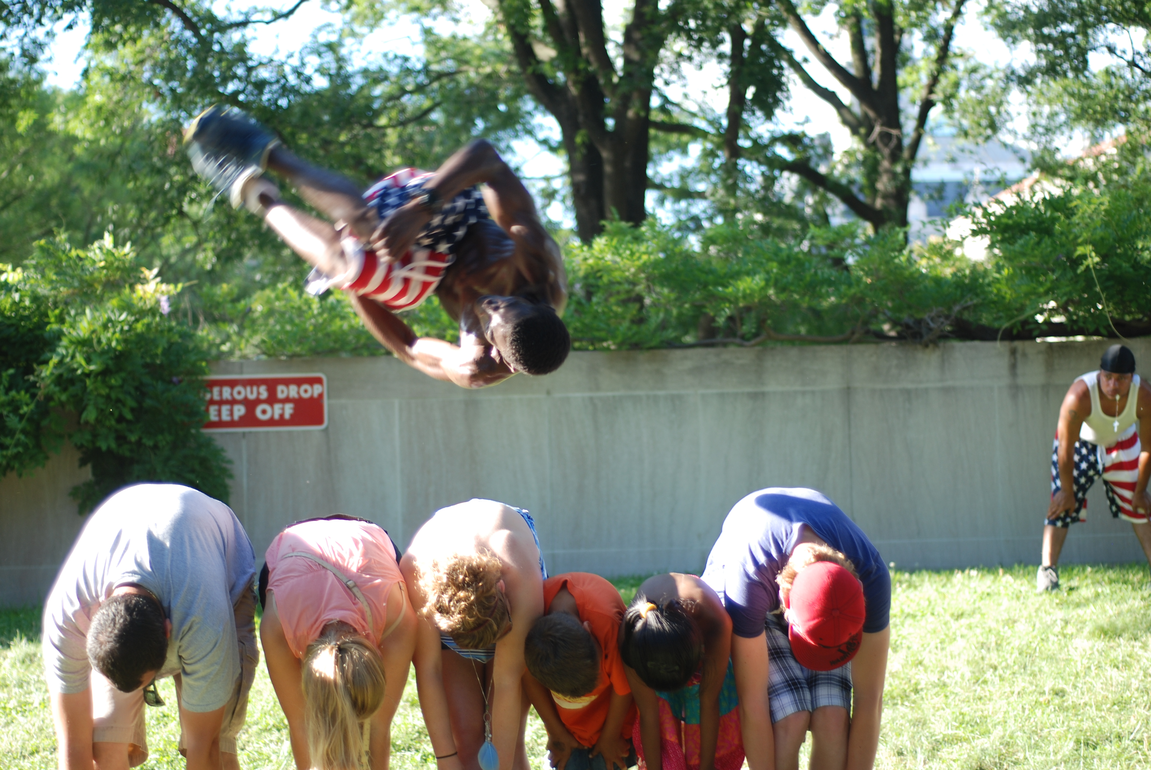 Two Steps Ahead - a break dancing street performance group in front of Natural History Museum at Washington D.C. : Jumping over volunteers.